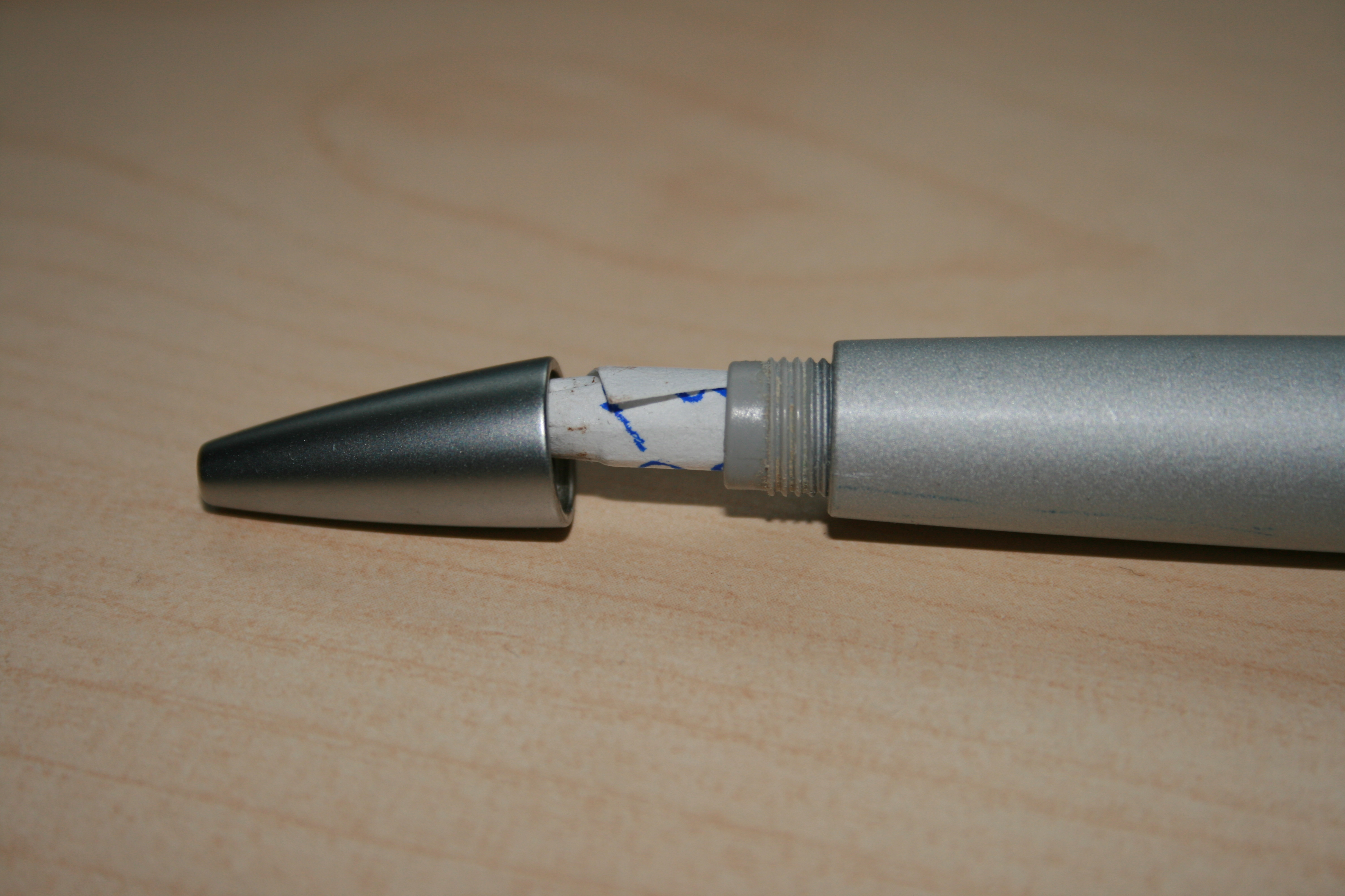 Cheat sheet in a rollerpen